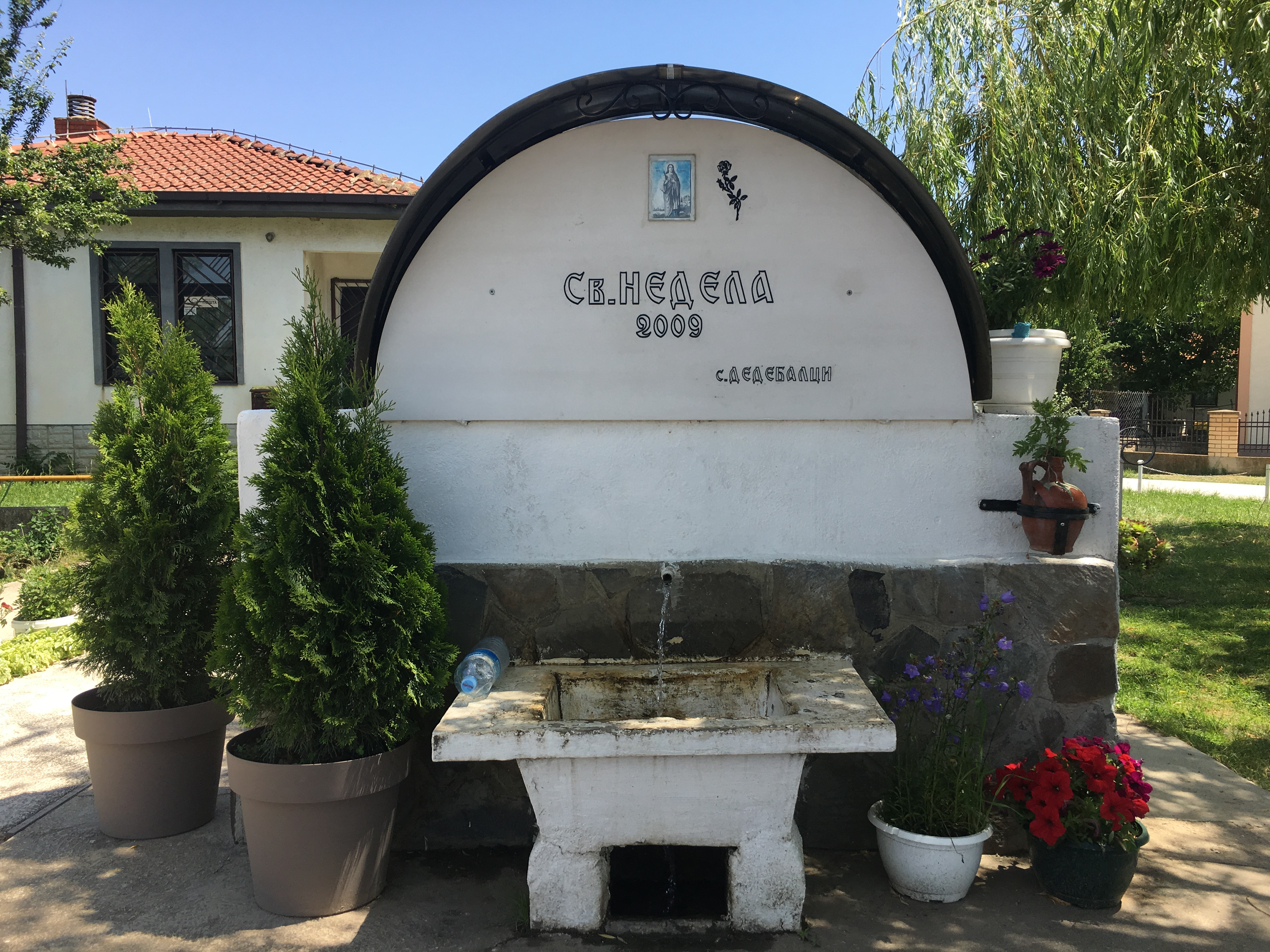 A pump in the village of Dedebalci